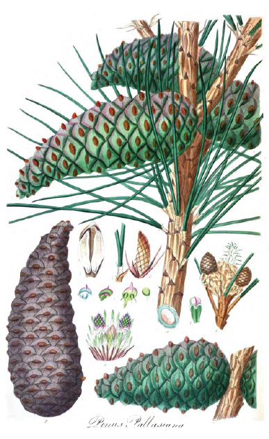 Pinus nigra var. pallasiana (syn. P. pallasiana). Botanical illustration from: Description of the Genus Pinus, with directions relative to the cultivation, remarks on the uses of the several species and descriptions of many other new species of the Family of Coniferae illustrated with figures by Aylmer Bourke Lambert, Esq. London: Messrs. Weddell, MDCCCXXXII